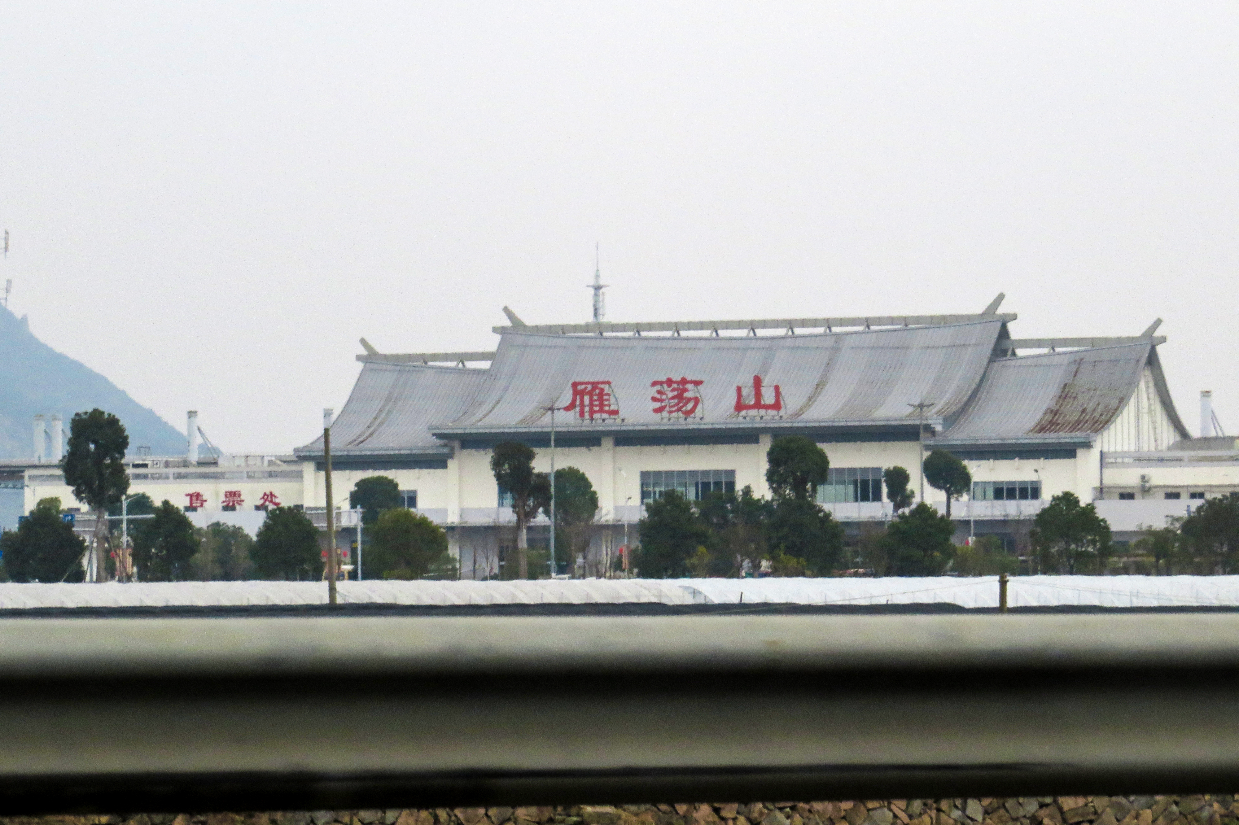 Taken from G15 Shenhai Expwy.